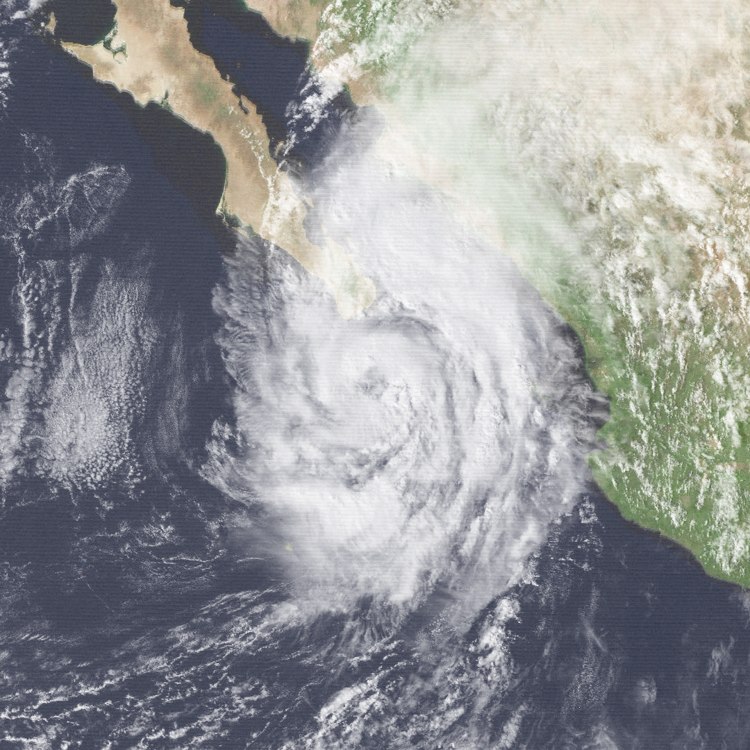 Hurricane Waldo near peak intensity south of the Baja Peninsula on October 8, 1985